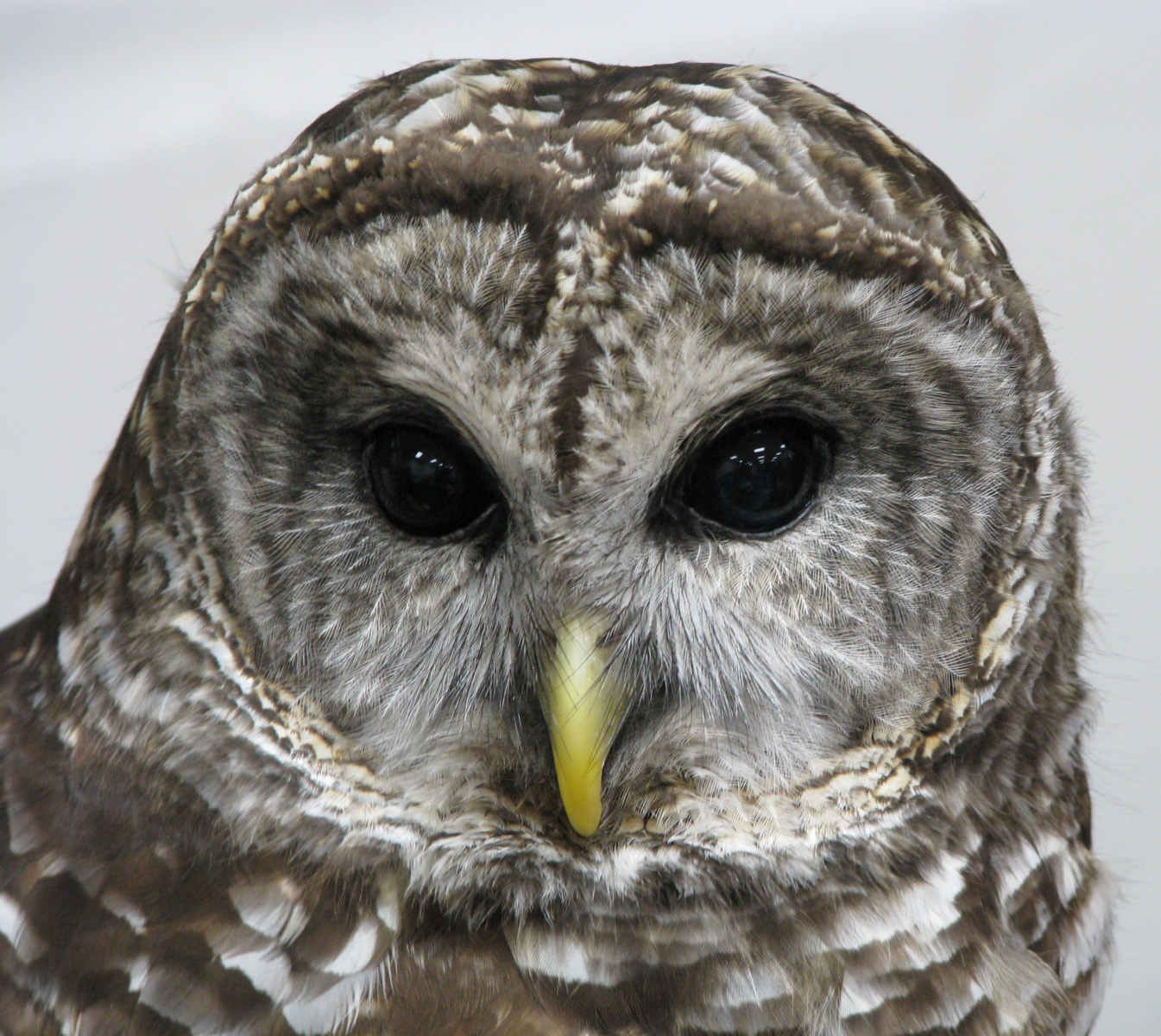 A Barred Owl rescued after an accident